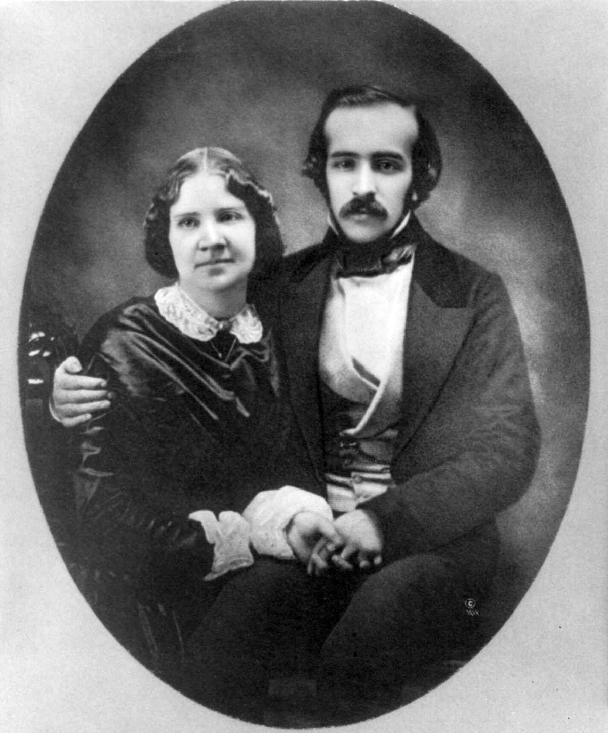 Jenny Lind and Otto Goldschmidt, half-length portrait, seated, oval